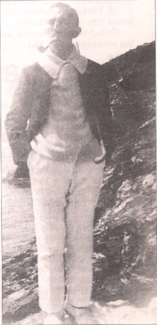 Ethem Nejat, First General Secretary of the Communist Party of Turkey.